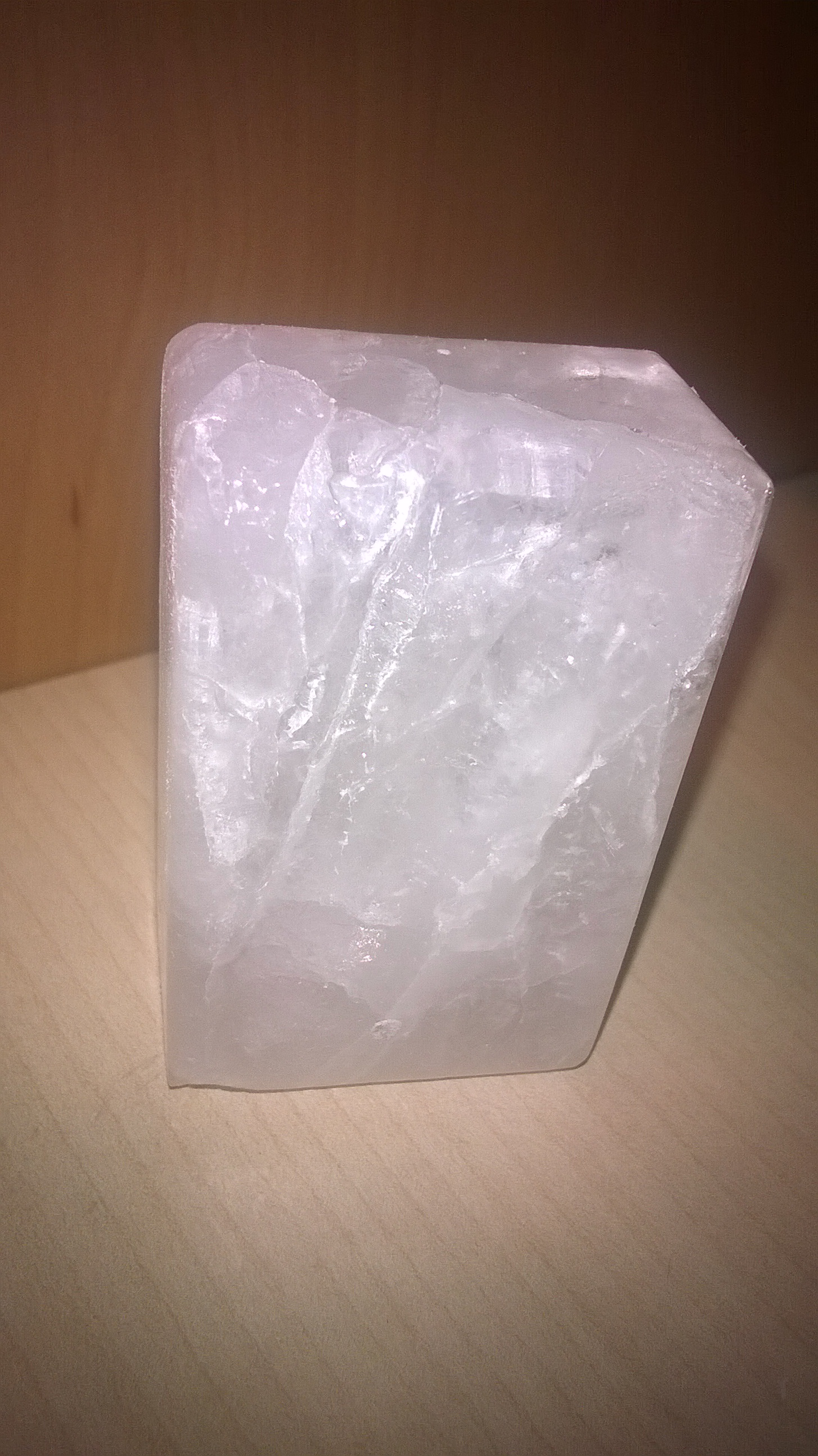 Potassium alum